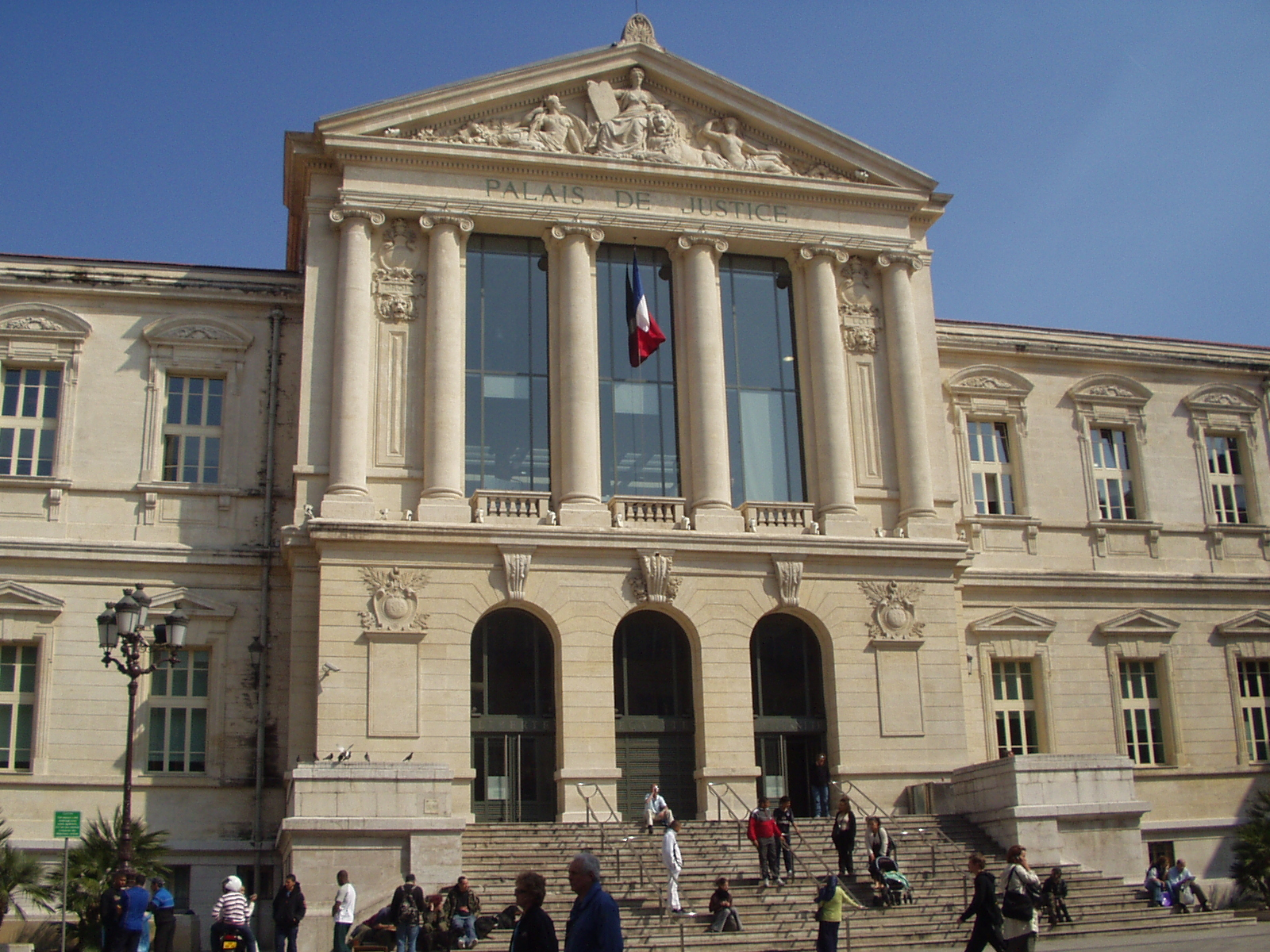 Court Hall in Nice, France Photo : Julien Navarro